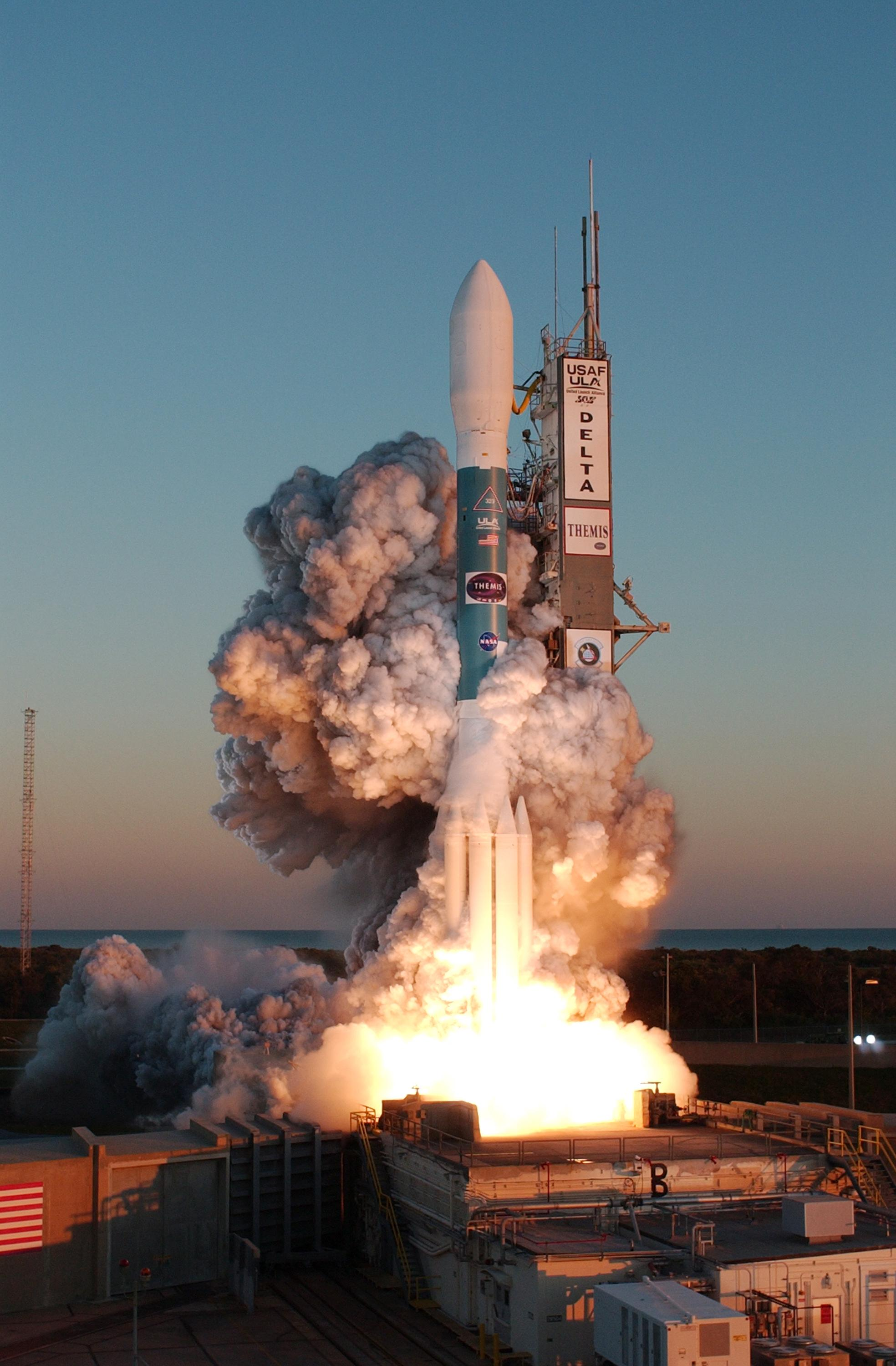 KENNEDY SPACE CENTER, FLA. -- At Cape Canaveral Air Force Station, clouds of smoke form around the Delta II rocket with NASA's THEMIS spacecraft aboard at it blasts off Pad 17-B at 6:01 p.m. EST. THEMIS, an acronym for Time History of Events and Macroscale Interactions during Substorms, consists of five identical probes that will track violent, colorful eruptions near the North Pole. This will be the largest number of scientific satellites NASA has ever launched into orbit aboard a single rocket. The THEMIS mission aims to unravel the mystery behind auroral substorms, an avalanche of magnetic energy powered by the solar wind that intensifies the northern and southern lights. The mission will investigate what causes auroras in the Earth?s atmosphere to dramatically change from slowly shimmering waves of light to wildly shifting streaks of bright color.